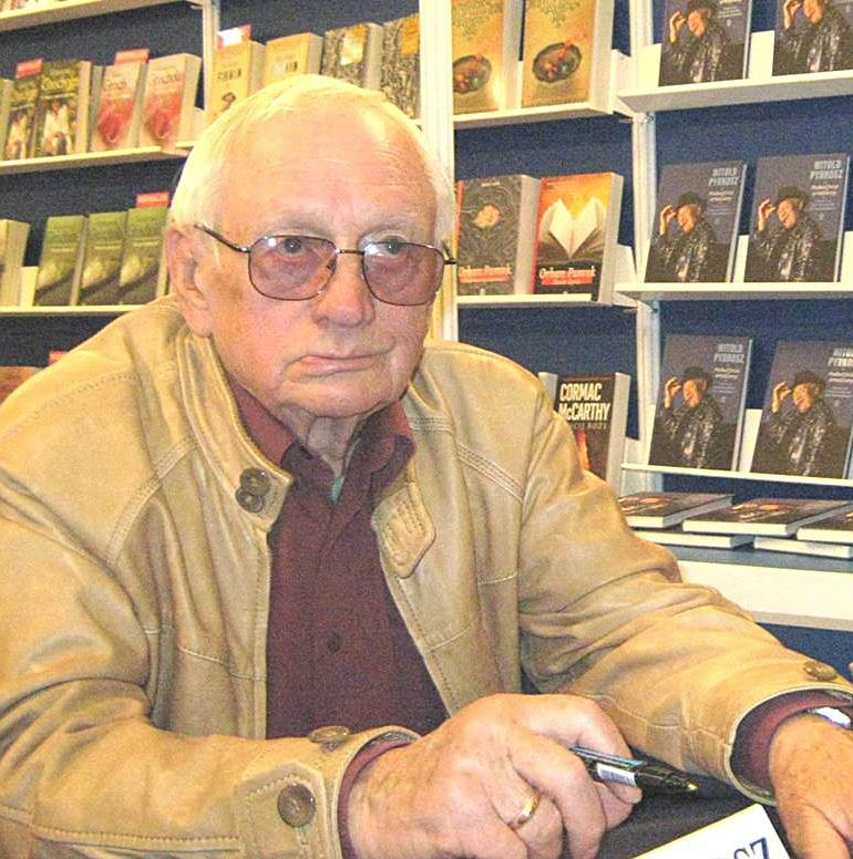 Polish actor Witold Pyrkosz.